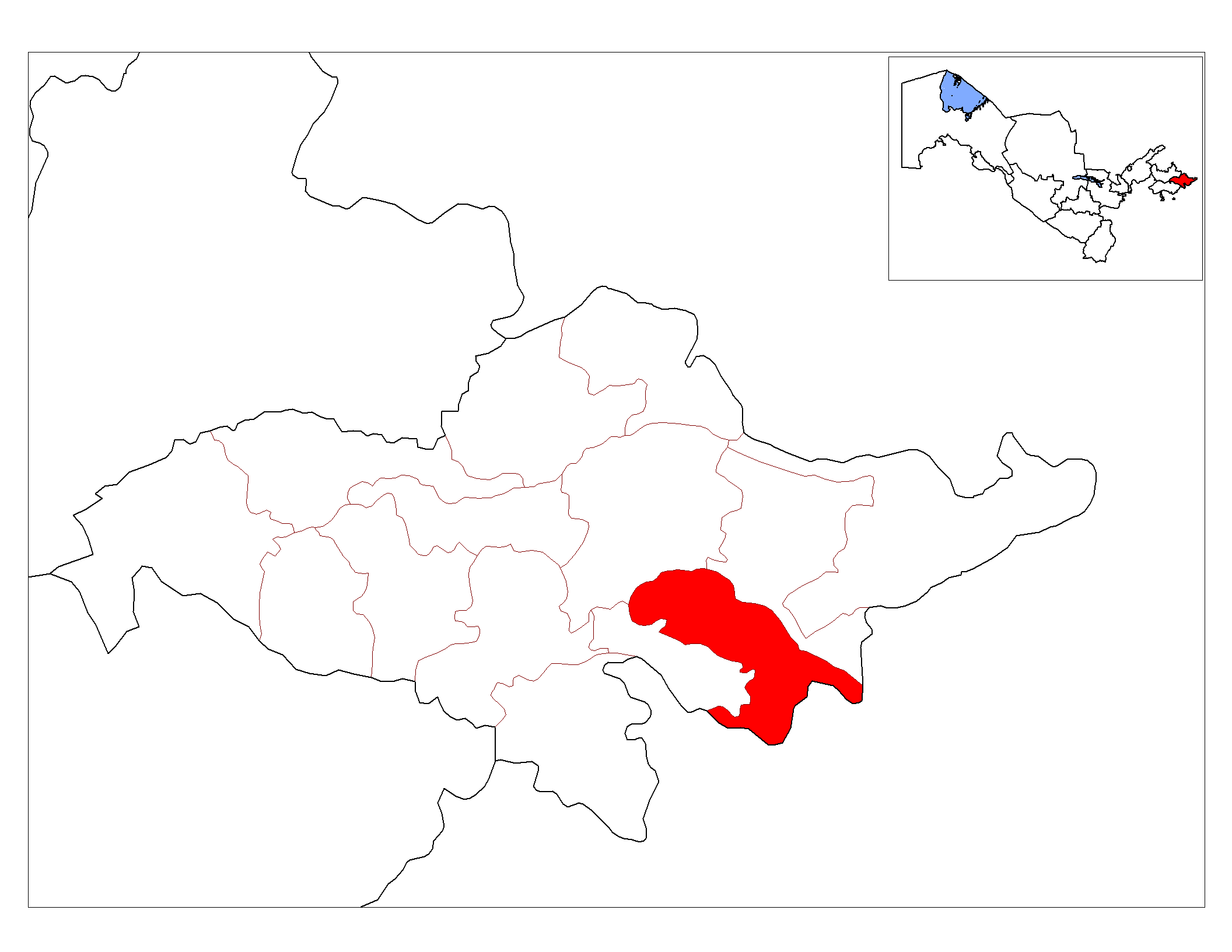 Location of Xo’jaobod District in Andijon Province